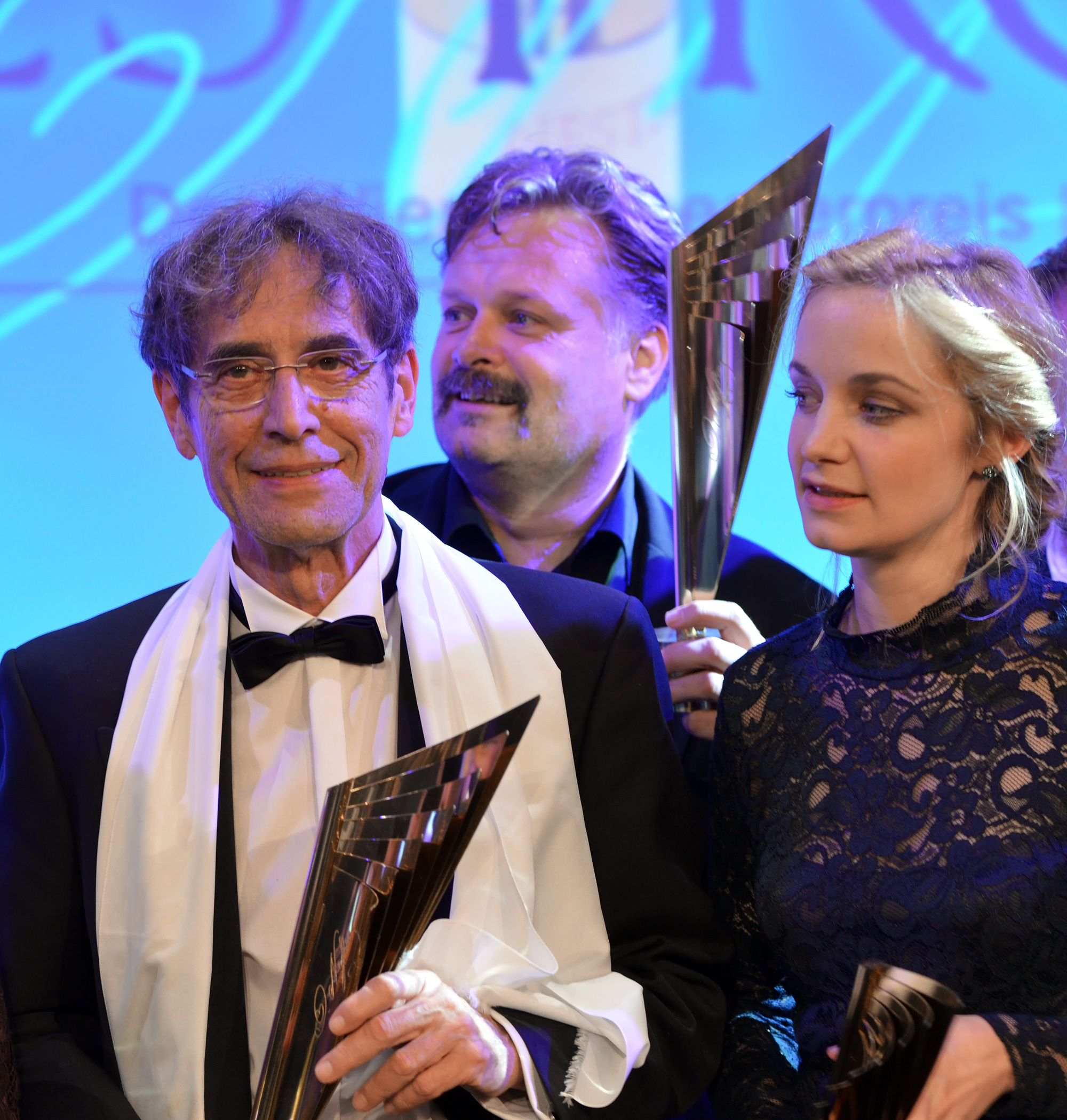 Raphaela Möst, Peter Gruber and Ed. Hauswirth (TAG) - Nestroy Theatre Awards 2014 at Wiener Stadthalle (Vienna, Austria).